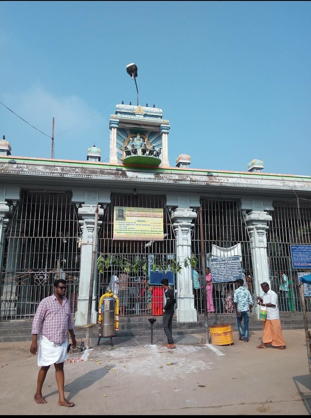 Erikuppam Saneeshwaran Temple